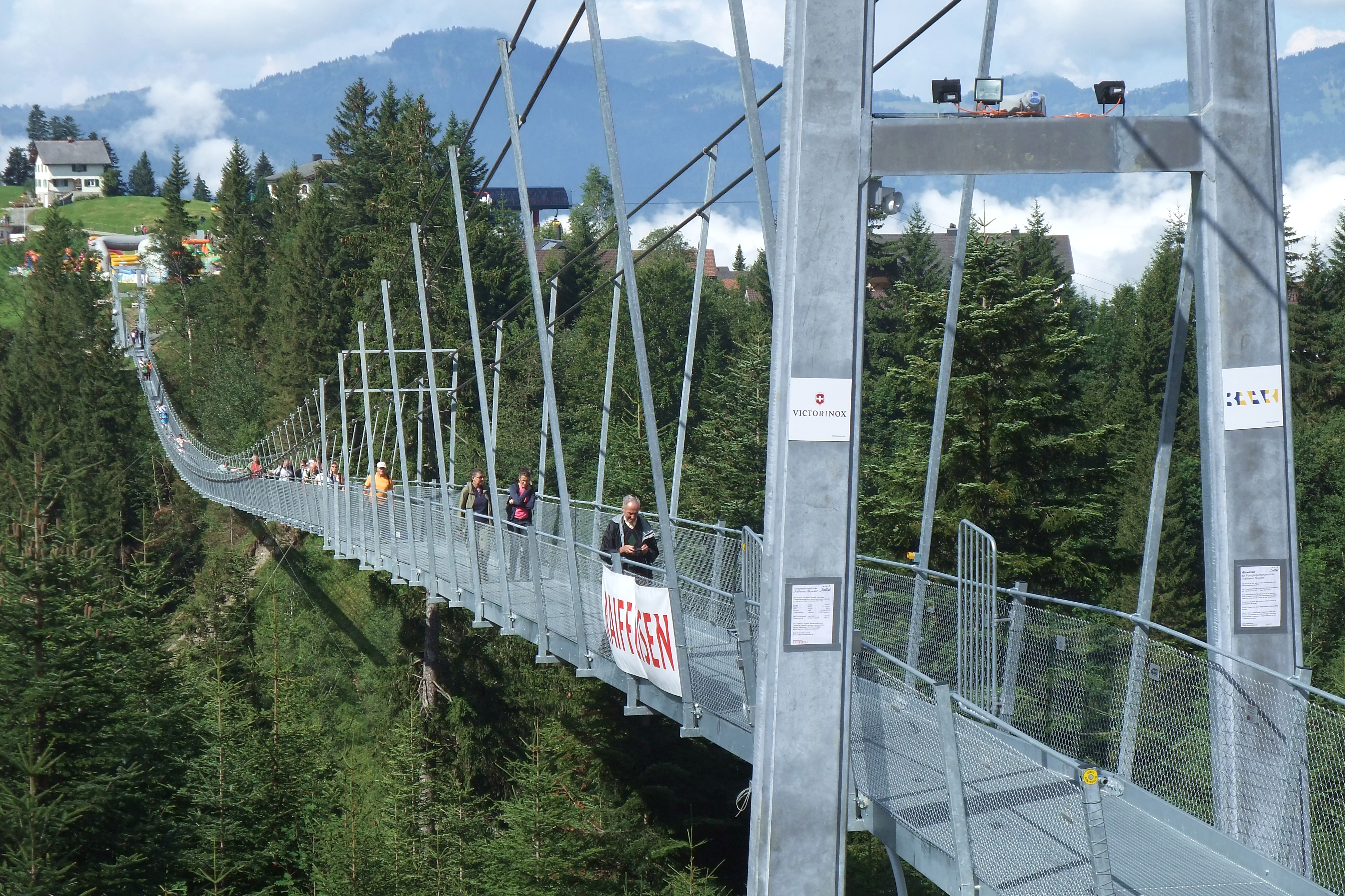 The Skywalk Sattel in Switzerland Original description:Opened on 10 July 2010 in the pre-alps of the canton Schwyz above Sattel - a new suspension bridge for pedestrians. The bridge starts at the upper terminus of the gondola station Mostelberg at an altitude of 1190 m (3904 ft) ASL. Sattel, Switzerland, August 4, 2010.